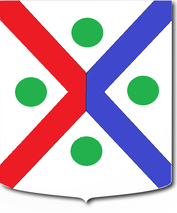 Galaresso family shield